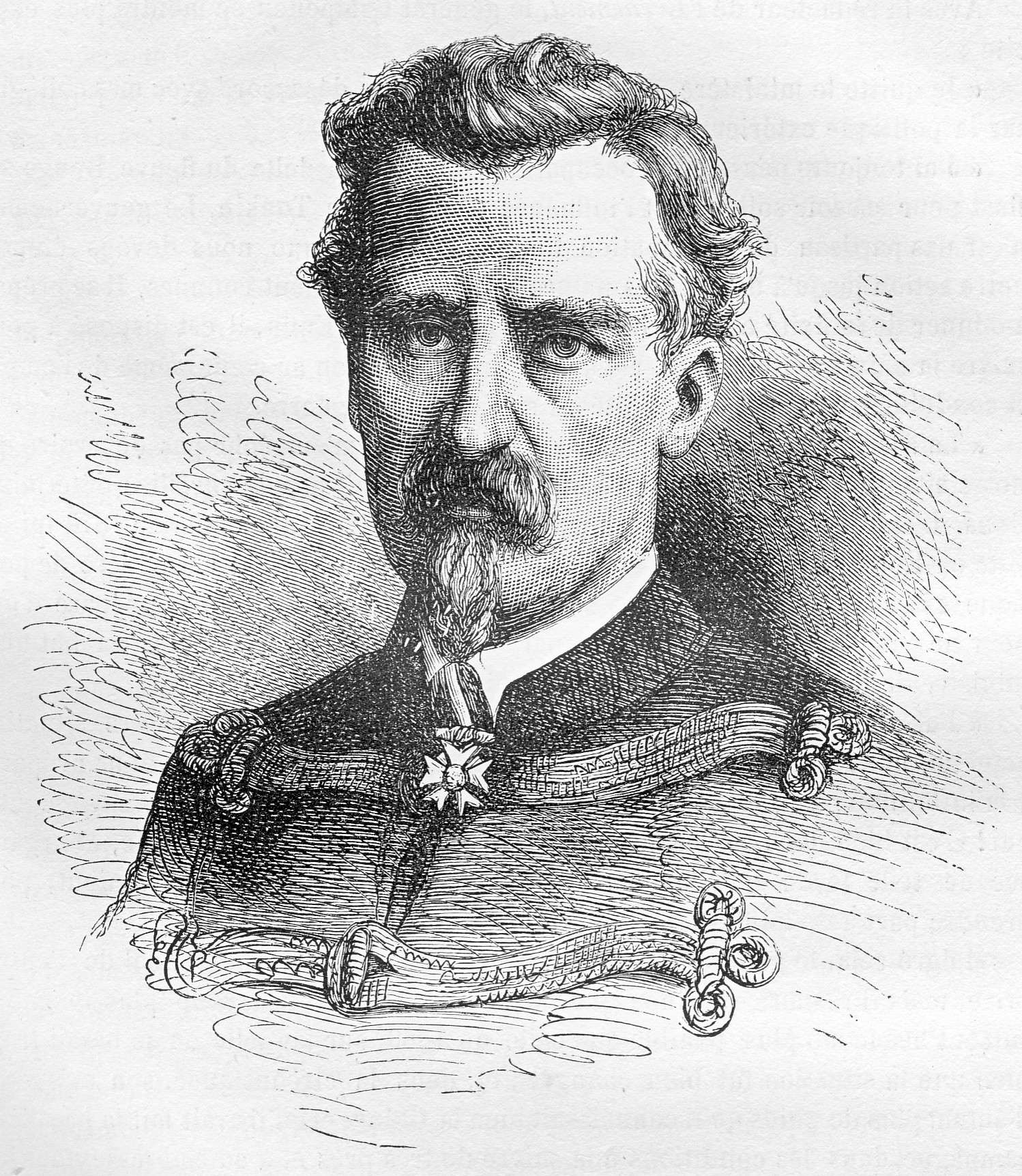 General Lewal, French minister of war (replaced Campenon late December 1885)